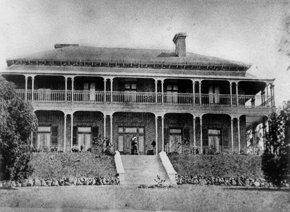 Gooloowan at Denmark HIll, Ipswich, ca. 1888 Gooloowan was built around the 1860s and was the home of Benjamin Cribb and his second wife Clarissa (Foote). This photograph was probably taken between 1880 and 1890 but certainly after 1874 when Benjamin Cribb died. Clarissa is standing above the front steps and is wearing a widow's cap. She died in 1899. (Description supplied with photograph).